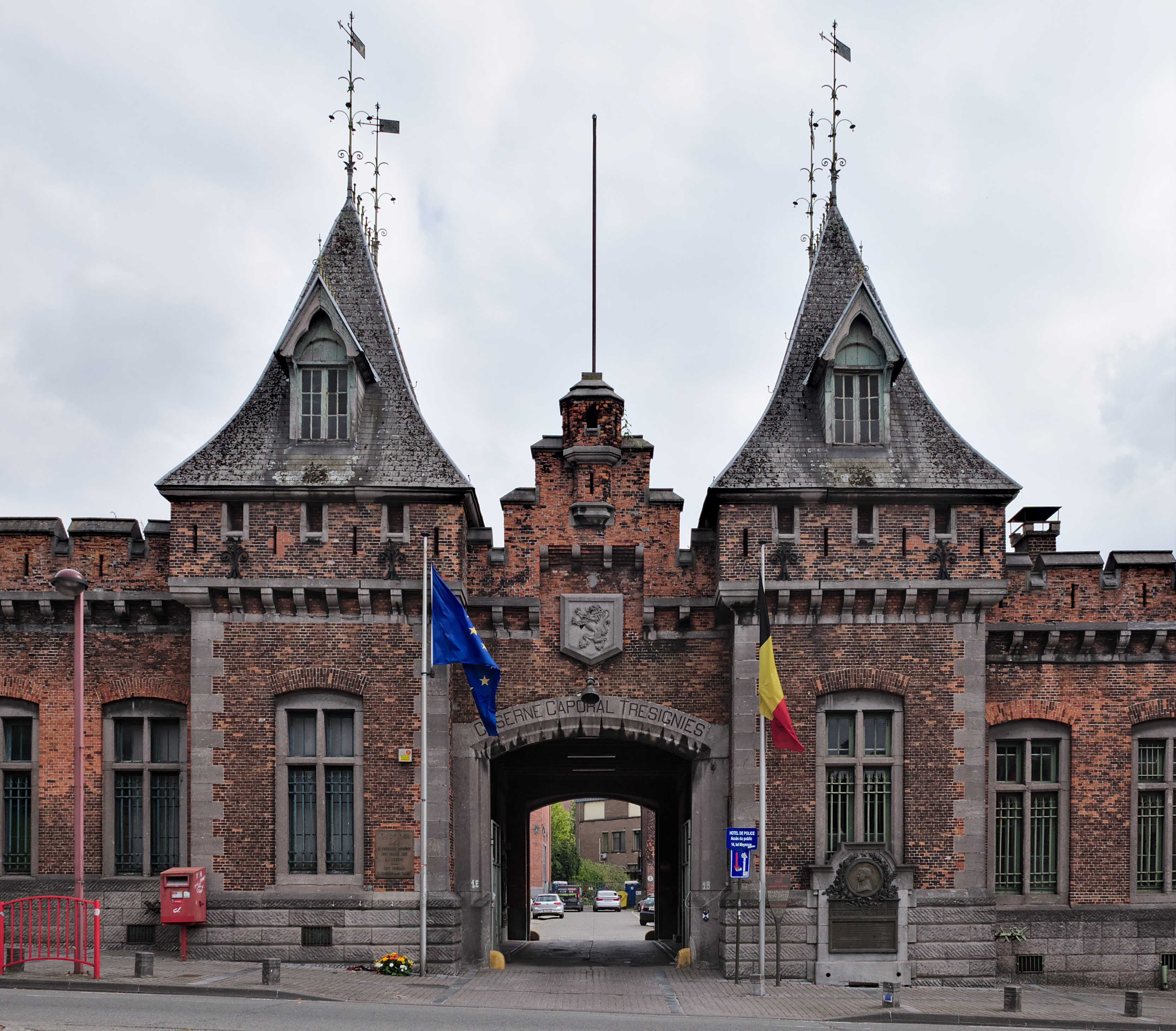 Caserne Caporal Trésignies in Charleroi This photo of immovable heritage has been taken in the Walloon Region